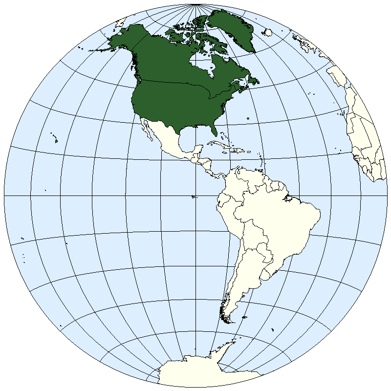 i am vishal indian